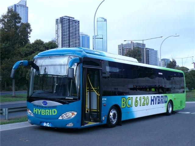 BCI Bus Model: BCI 6120 Hybrid